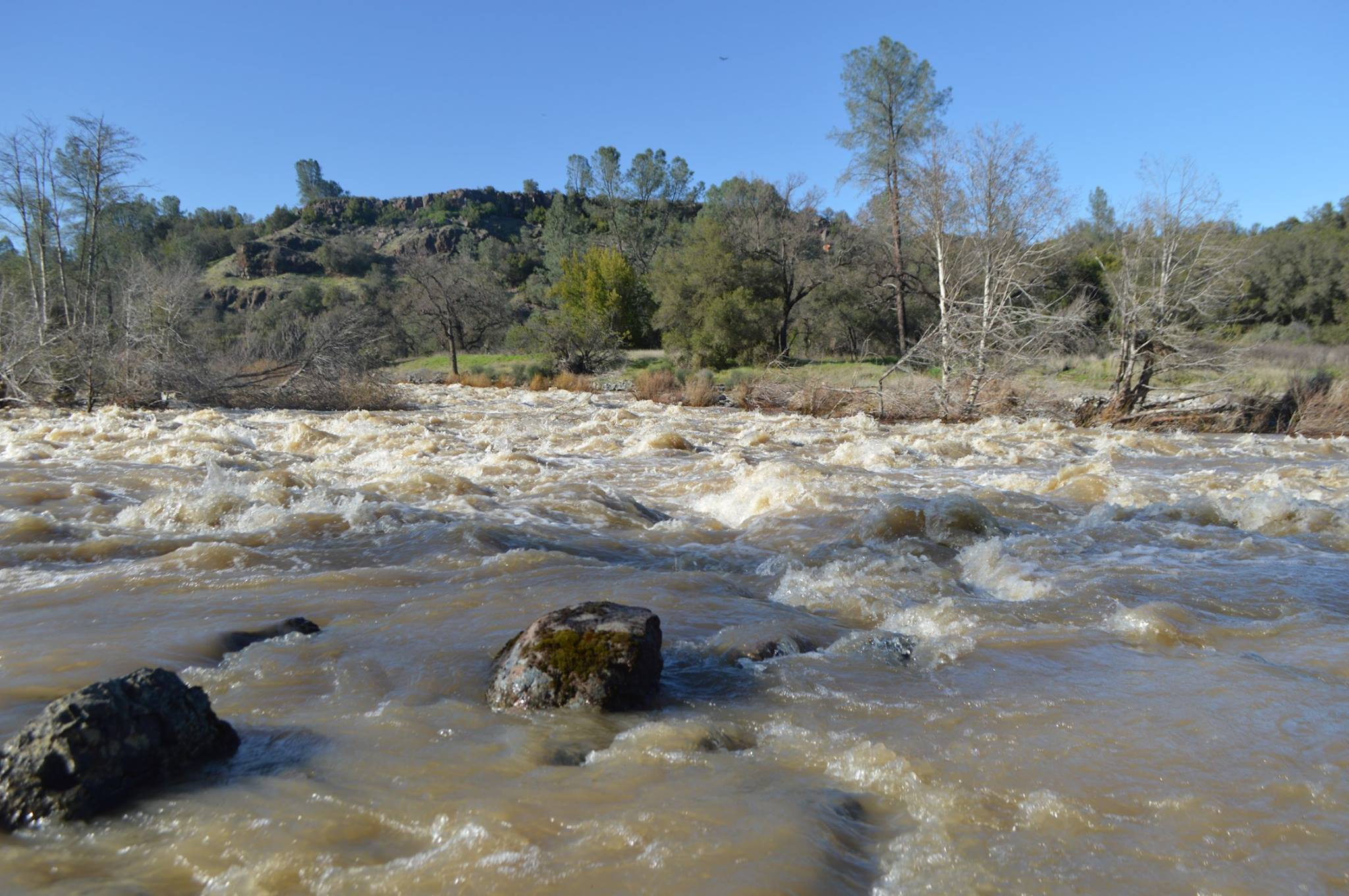 A view of Putah Creek above Lake Berryessa after some heavy rains in March 2018!